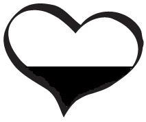 Asexuality symbol (disputed)